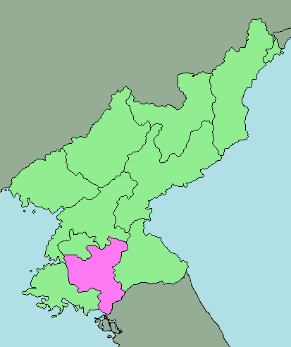 area map of Hwanghaebuk Province